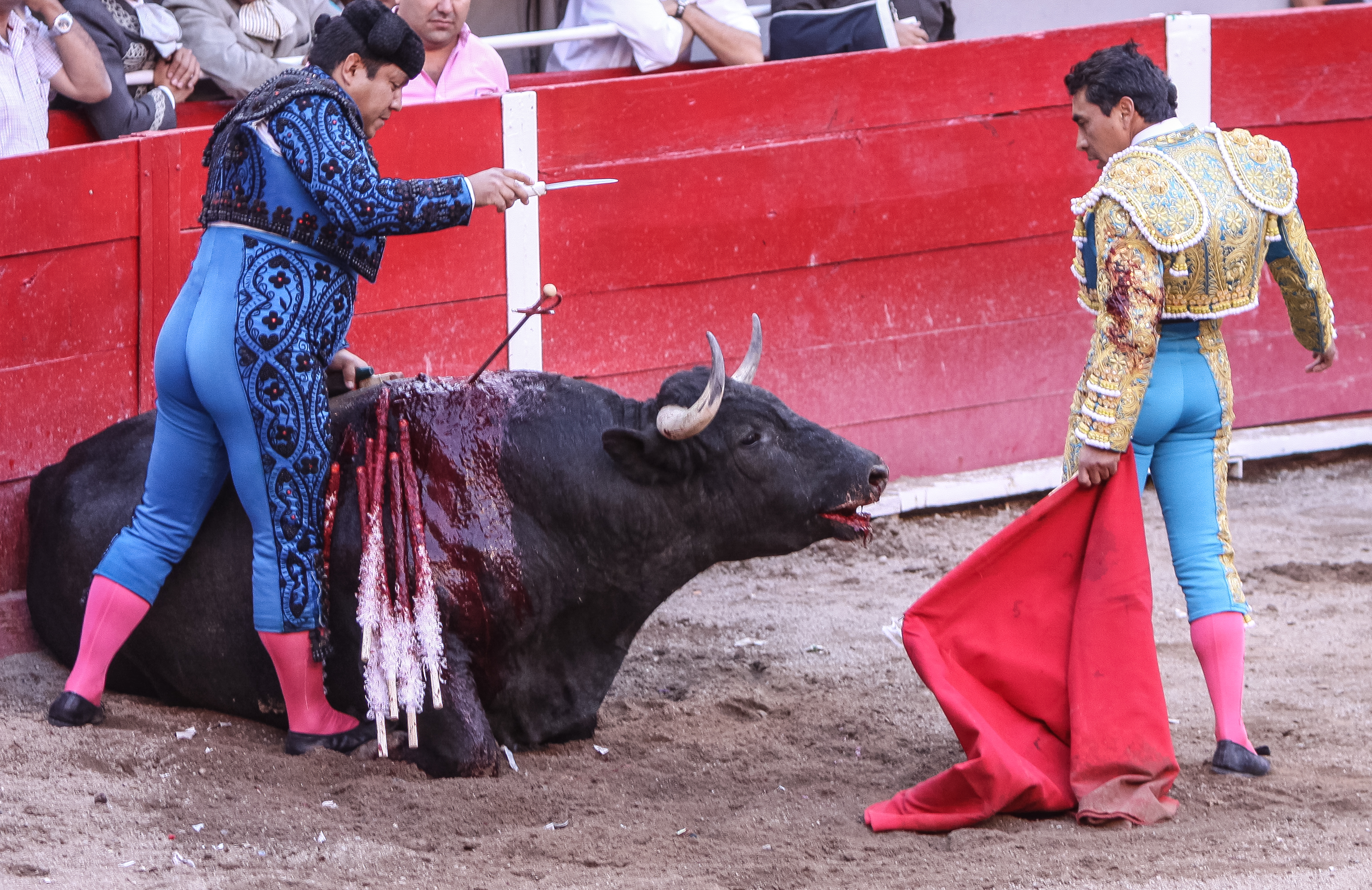 In bullfighting, often the bulls don´t die immediately ater being stabbed with the sword and they collapse out of exhaustion, bleeding, so in order to expedite their death they are stabbed again behind the head. Two seconds later, this bull was dead, ending the pain and suffering he endured in this terrible spectacle.